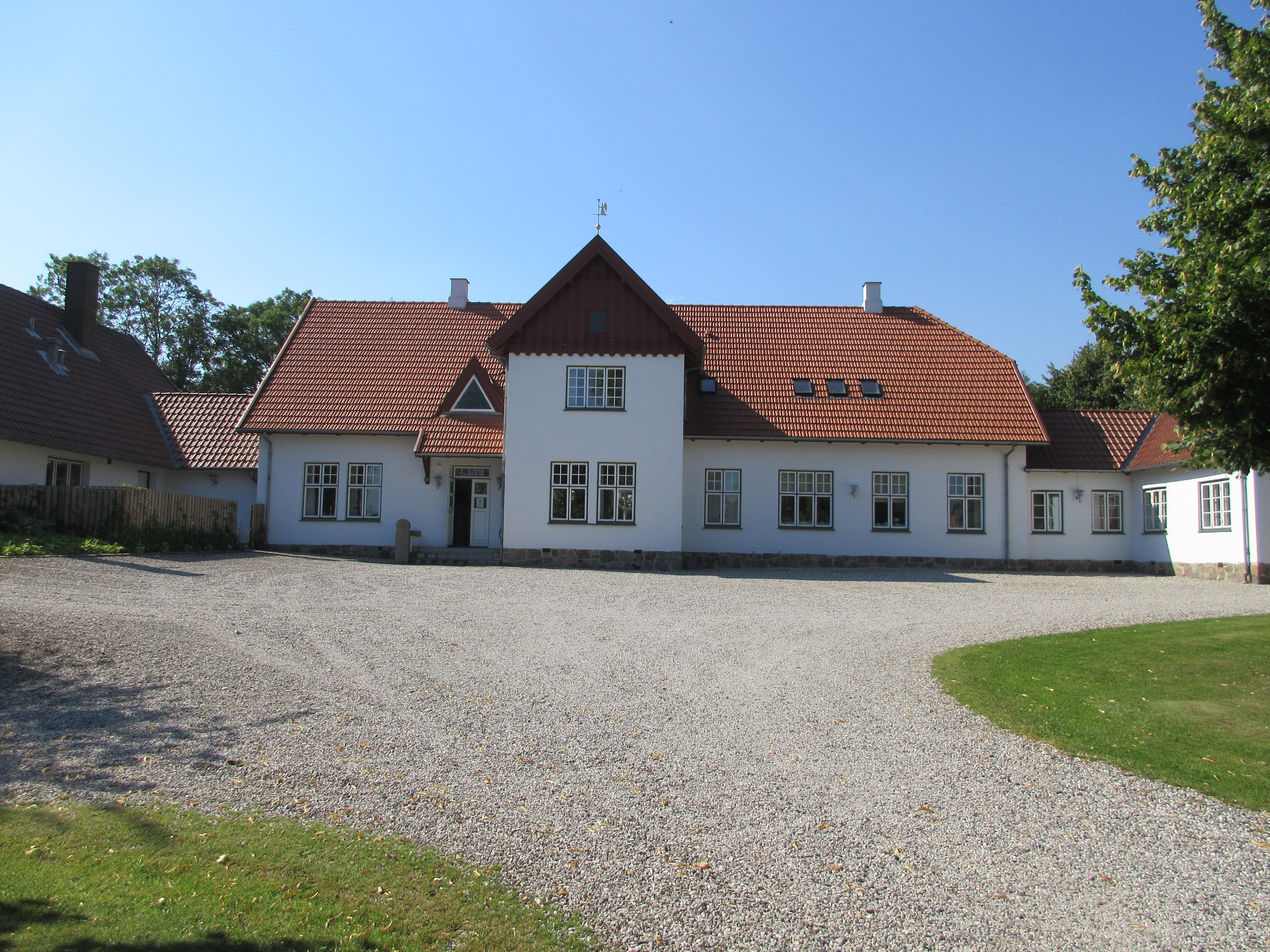 Blovstrød Sognegård next to Blovstrød Kirke in Allerød Municipality, Denmark